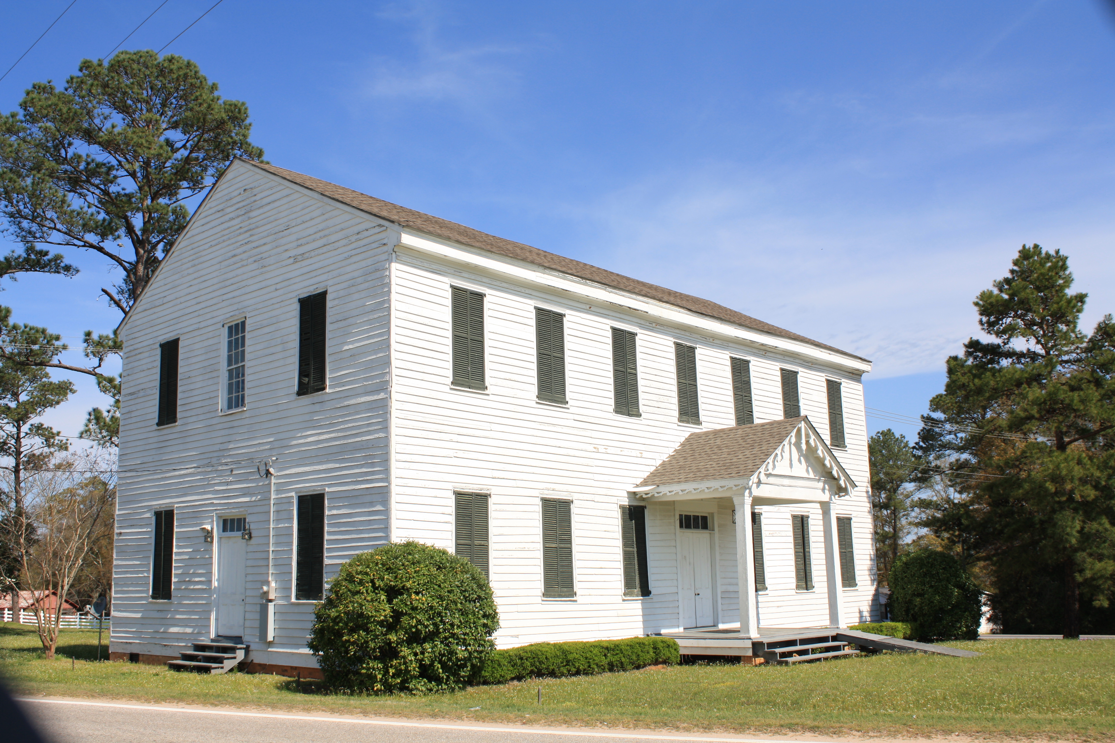 Perdue Hill Masonic Hall at Perdue Hill, Monroe County, Alabama. Building completed in 1825. Originally located at what is now the ghost town of Claiborne, a few miles west on the Alabama River.